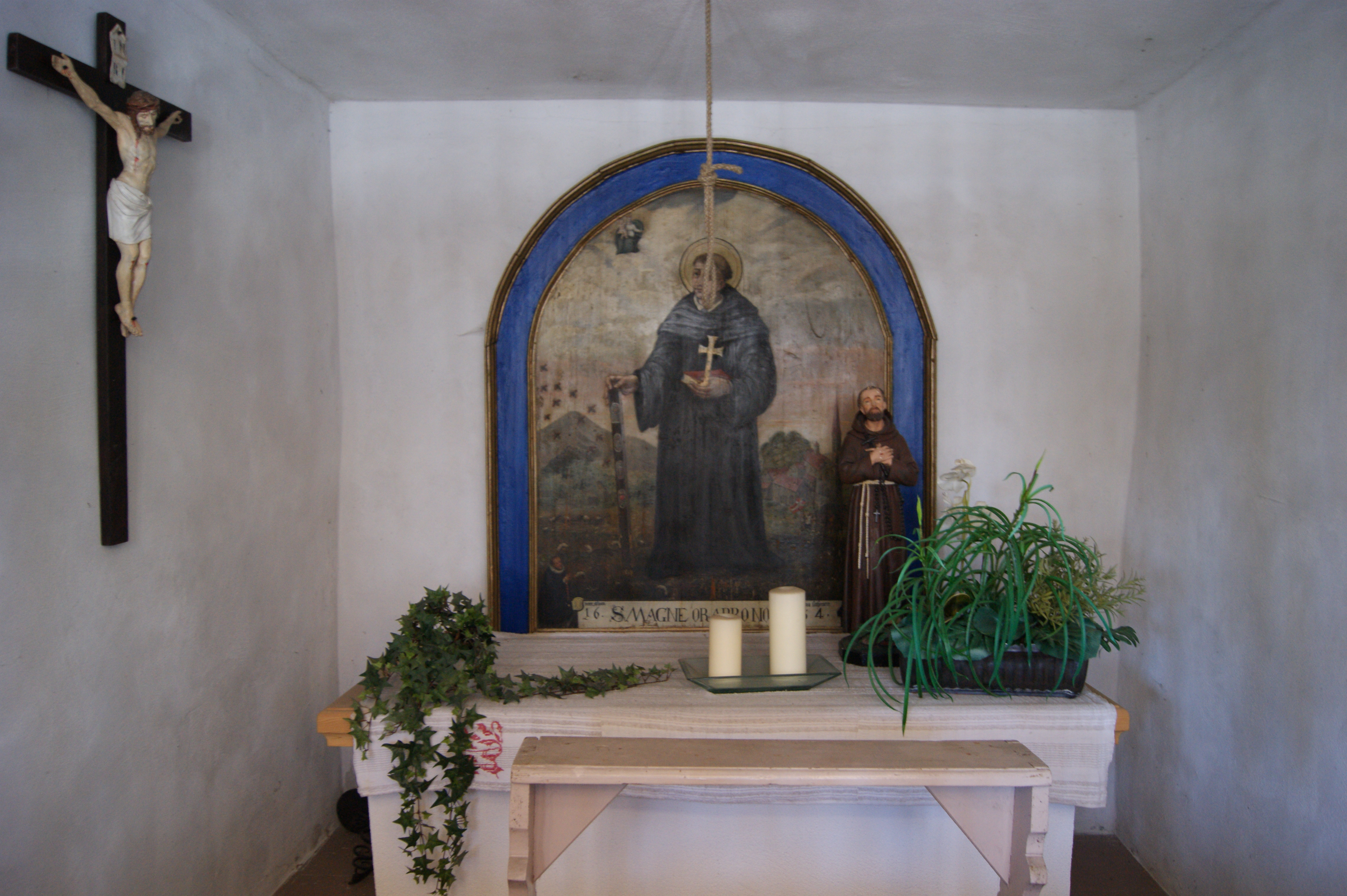 Chapel St. Magnus in Innerbraz, Kraftwerkssiedlung, Vorarlberg, Austria. Built in 1634.